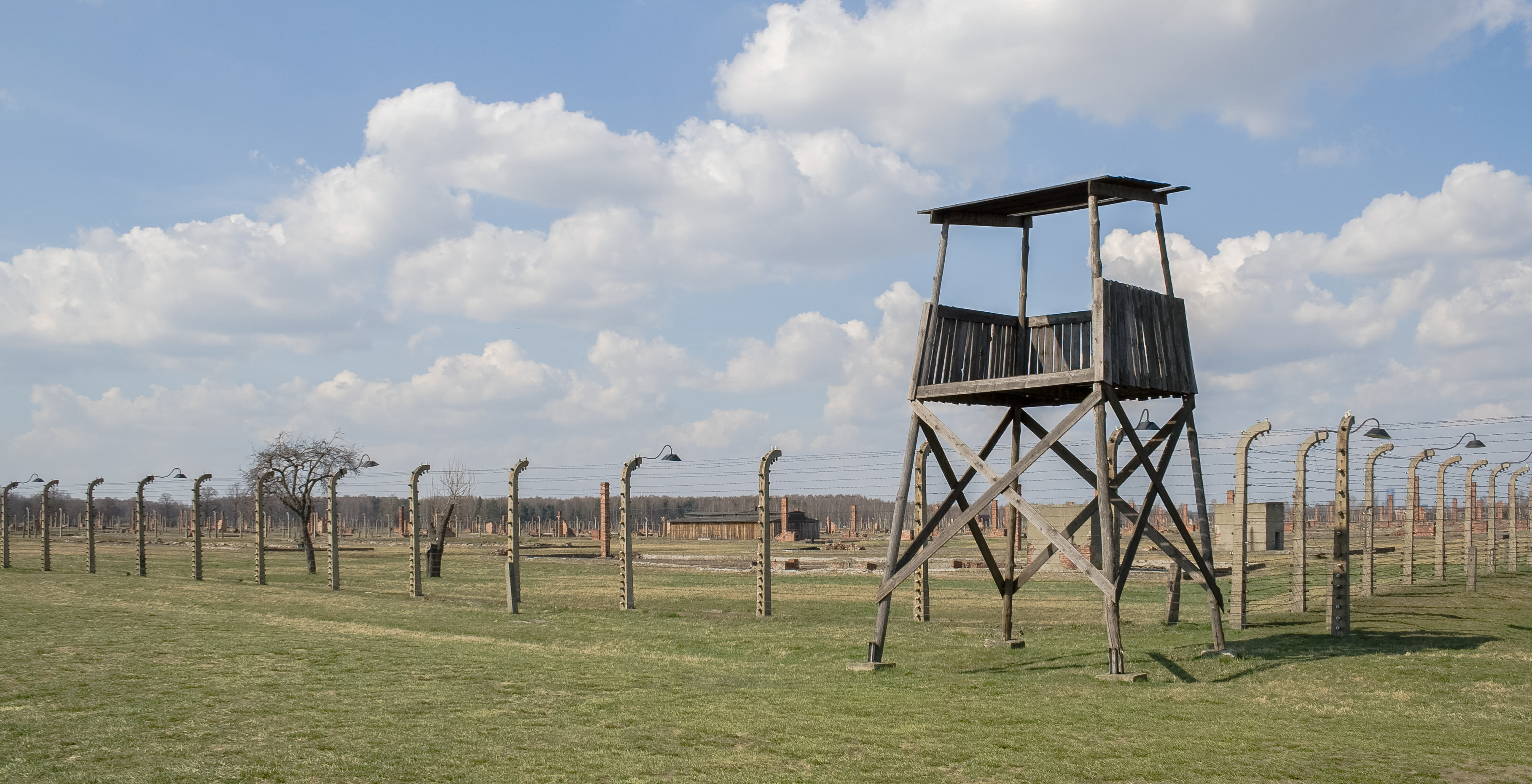 Barracks Auschwitz ll (Birkenau), Poland